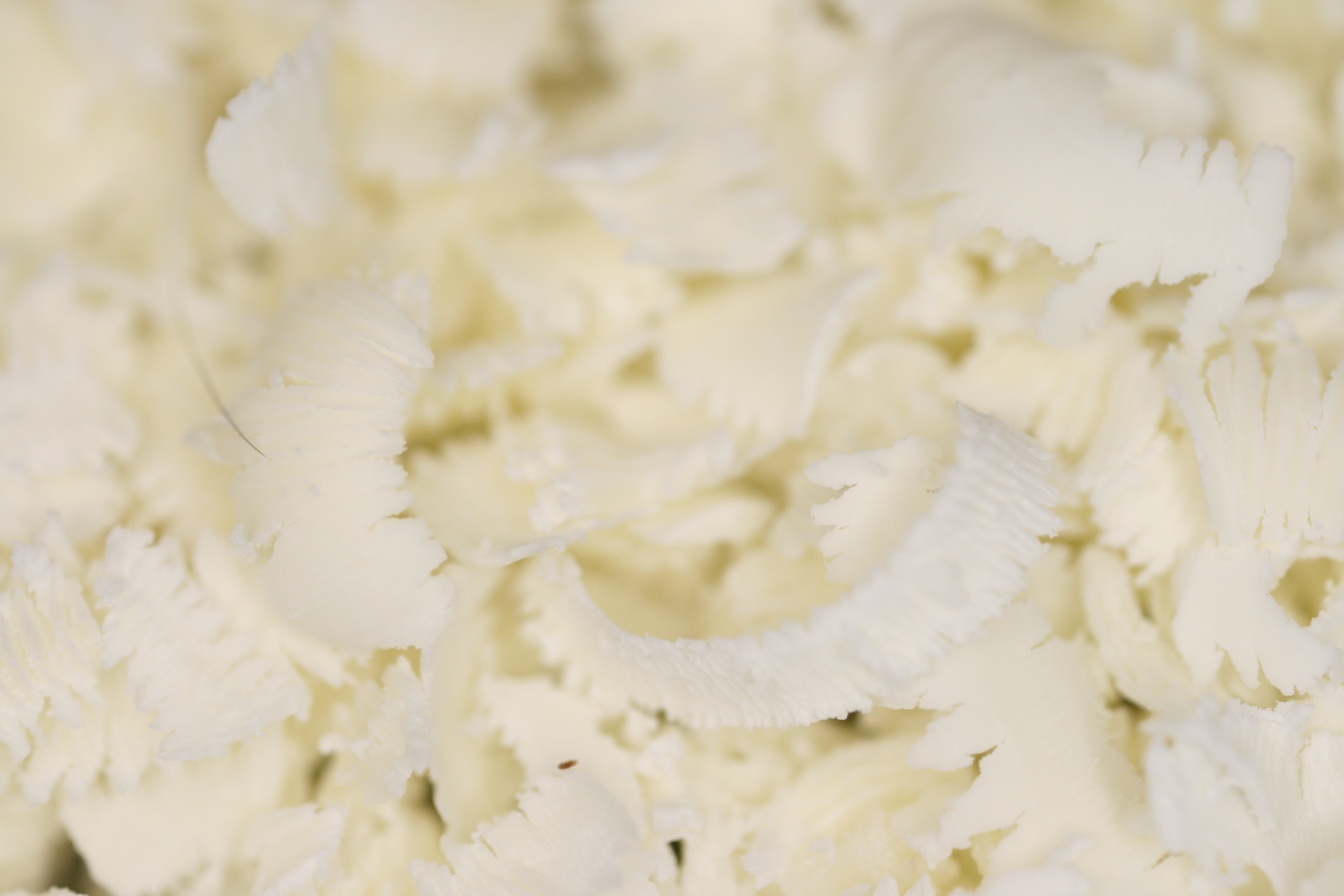 White chocolate shreds detail.